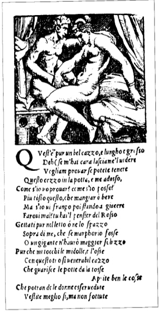 Erotic illustration. Wood-cut.